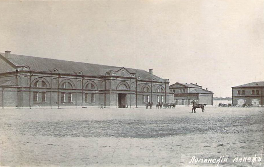 Lomansky riding hall in St. Petersburg